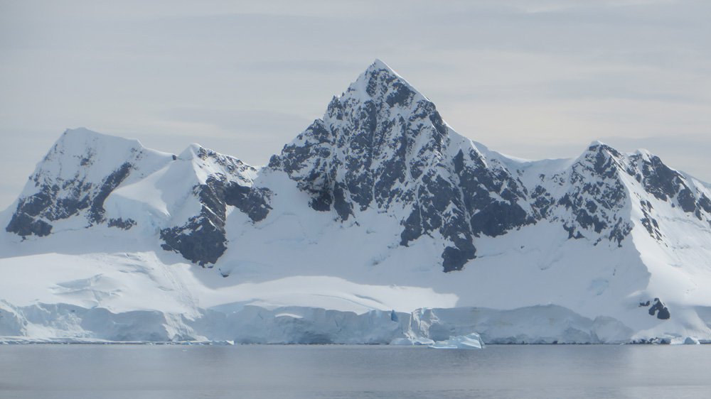 Wilhelmina Bay